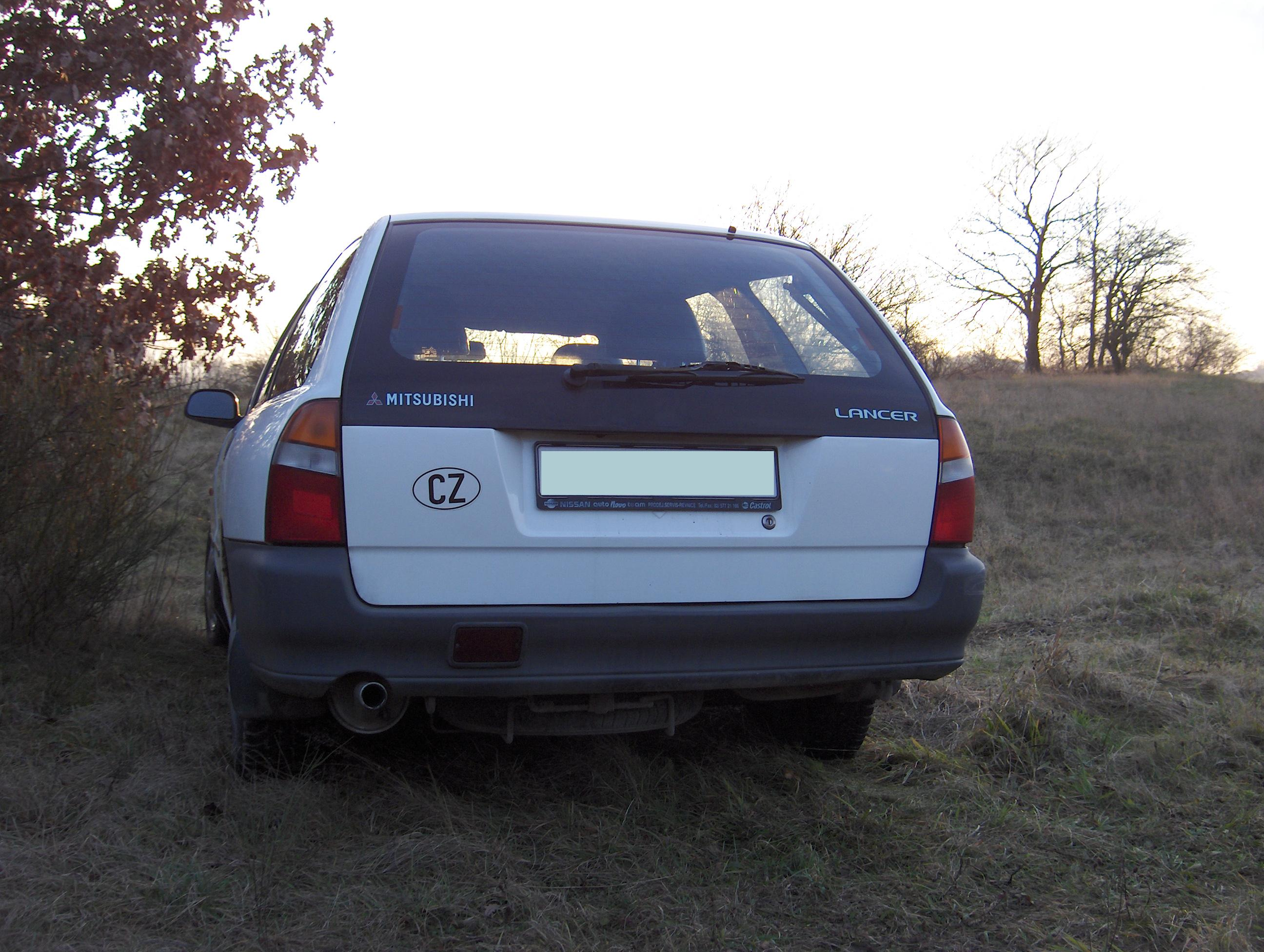 Mitsubishi Lancer 5